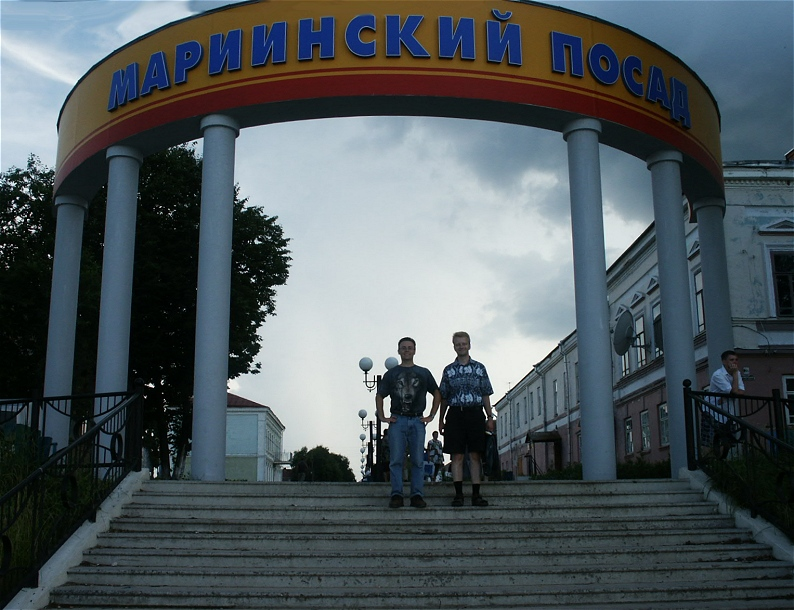 In Mariinsky Posad, Chuvashia